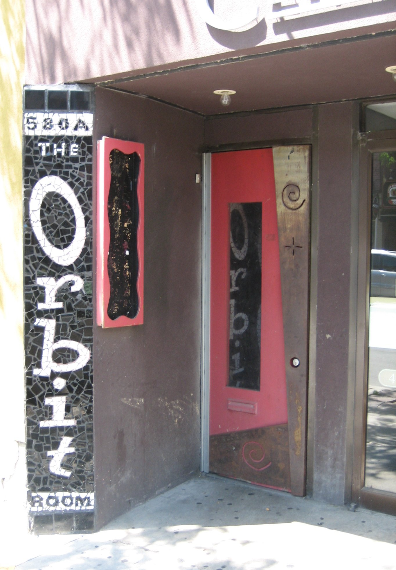 Entrance to The Orbit Room